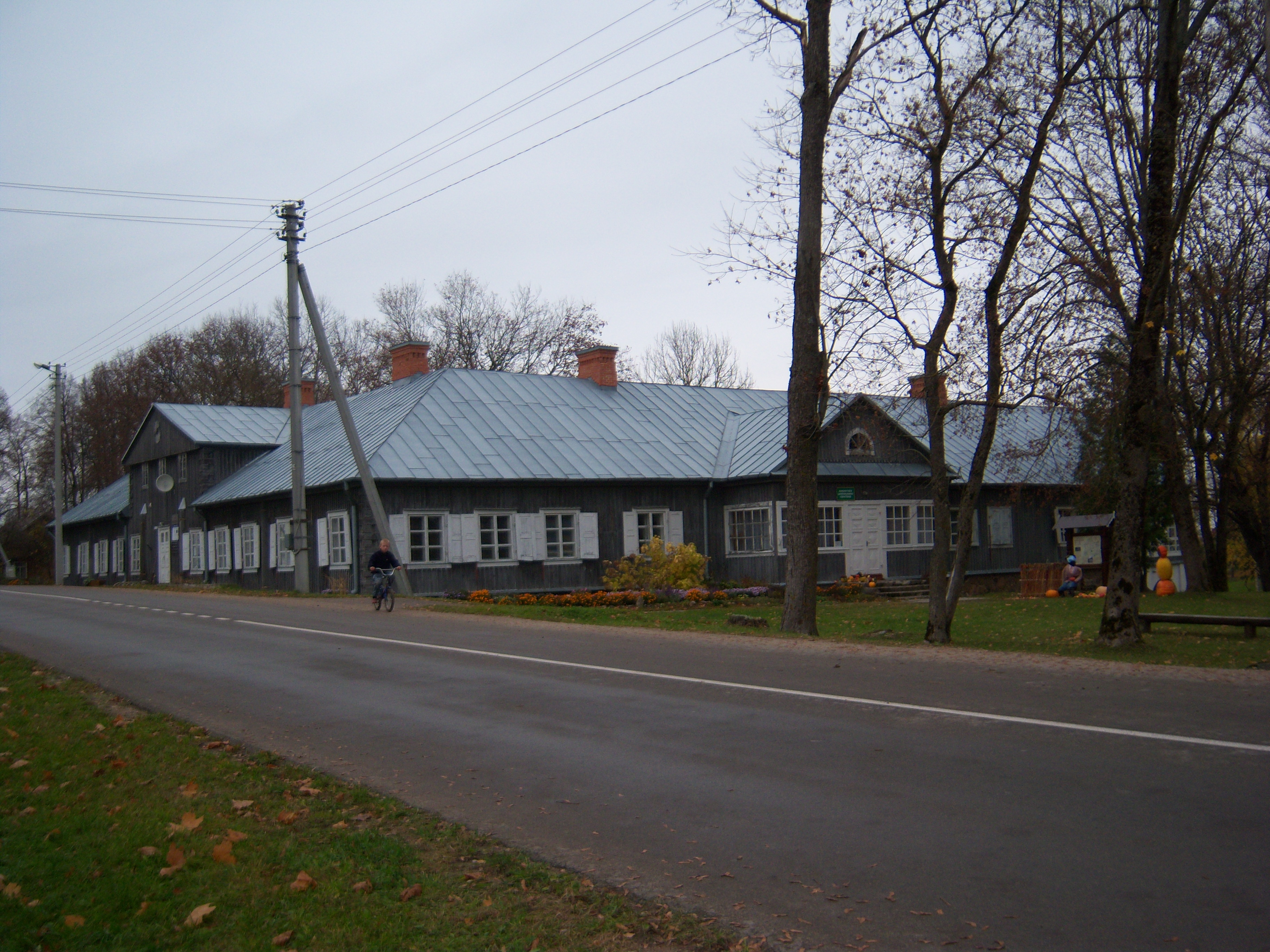 Former manor, Adomynė, Kupiškis District, Lithuania